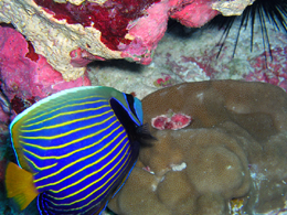 Angelfish and Hump Coral. There are a total of 109 species of stony coral in the Howland Islands NWR. Credit: USFWS